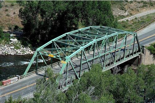 Bridgepixing the Eagle River Bridge in Eagle, Colorado between Vail and Glenwood Springs carrying US Highway 6 just south of Interstate I-70. This Steel Through Truss Bridge was built in 1933 and is listed on the National Register of Historic Places. We have more than 12,000 images of other Bridges and a Bridge Blog at